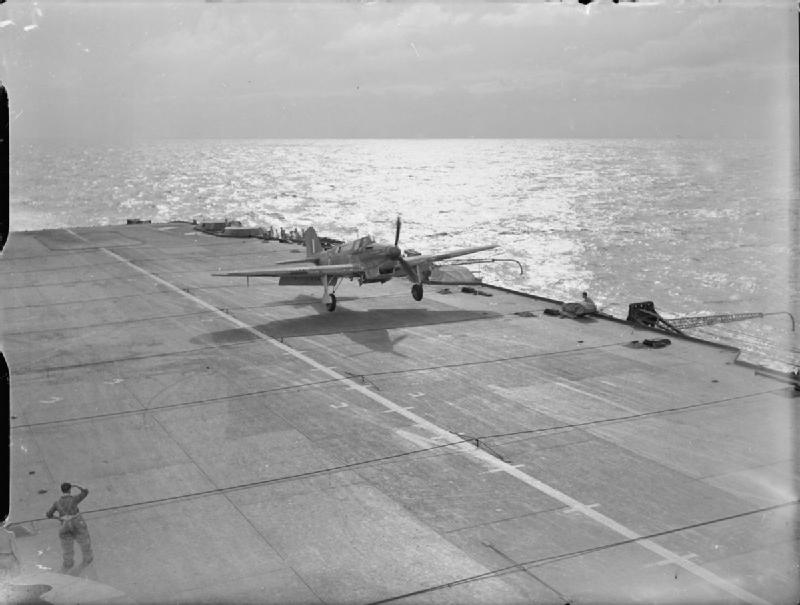 The Royal Navy during the Second World War- Madagascar, April - May 1942 A Fairey Fulmar of 803 Squadron, Fleet Air Arm landing on the deck of HMS FORMIDABLE during the operations off Madagascar. The force left Colombo on 24 April, and put into the Seychelles on 1 May. The Fleet Air Arm carried out extensive searches and patrols over a wide area during the operation. The covering force then put into Mombasa on 10 May after the operation was concluded.